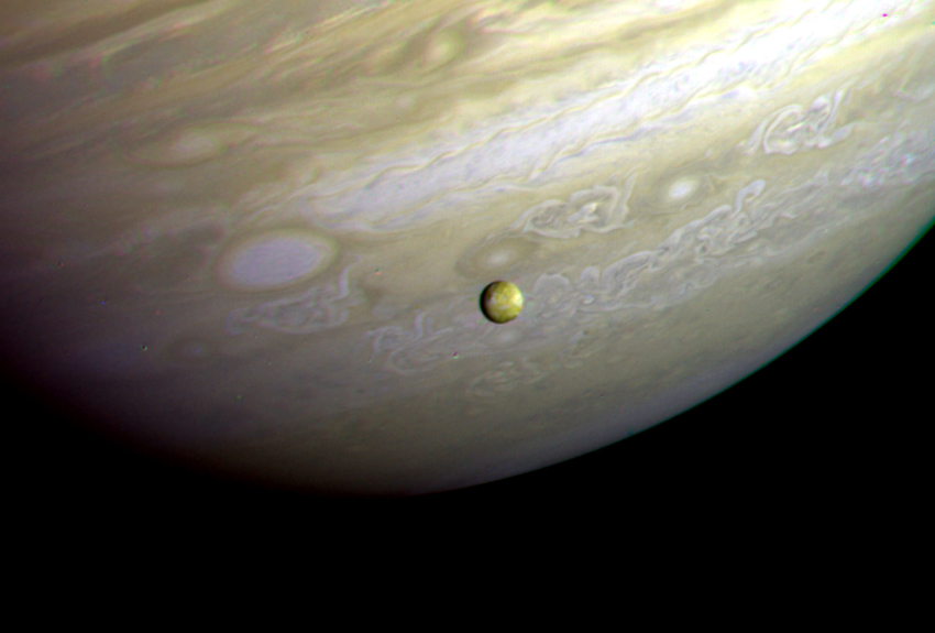 This photograph of the southern hemisphere of Jupiter was obtained by Voyager 2 on June 25, 1979, at a distance of 12 million kilometers (8 million miles). The Voyager spacecraft is rapidly nearing the giant planet, with closest approach to occur at 4:23 pm PDT on July 9. Seen in front of the turbulent clouds of the planet is Io, the innermost of the large Galilean satellites of Jupiter. Io is the size of our moon. Voyager discovered in early March that Io is the most volcanically active planetary body known in the solar system, with continuous eruptions much larger than any that take place on the Earth. The red, orange, and yellow colors of Io are thought to be deposits of sulfur and sulfur compounds produced in these eruptions. The smallest features in either Jupiter or Io that can be distinguished in this picture are about 200 kilometers (125 miles) across; this resolution, it is not yet possible to identify individual volcanic eruptions. Monitoring of the erupture activity of Io by Voyager 2 will begin about July 5 and will extend past the encounter July 9. The Voyager Project is managed for NASA by the Jet Propulsion Laboratory.